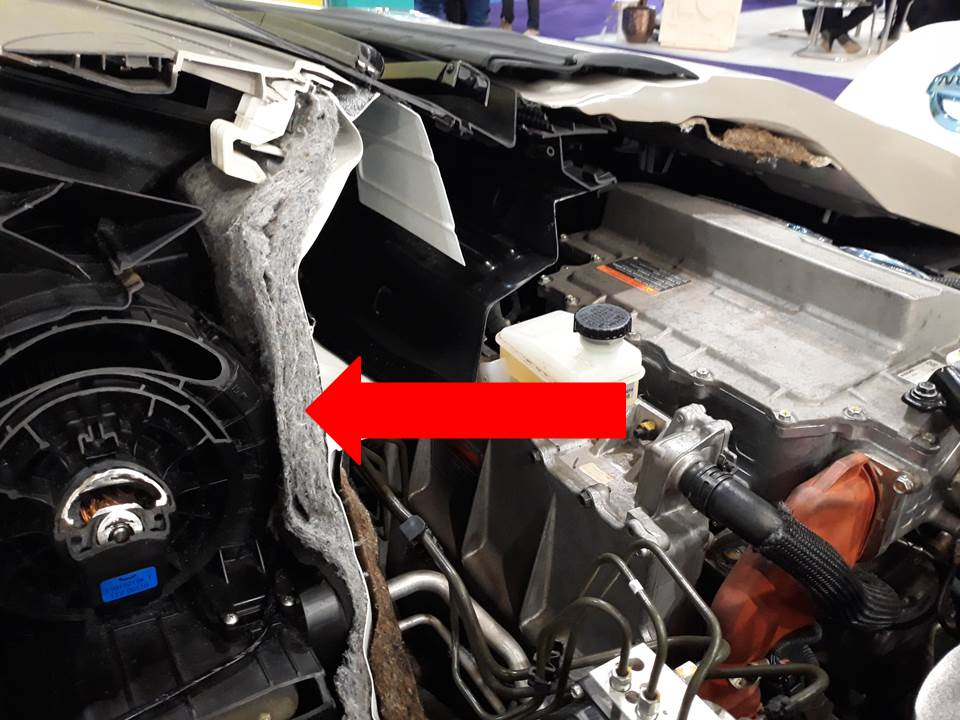 _Stitch-bonded fabric in a car for_noice_and_thermal_isolation,_between_the_engine_case_and_the_passenger_compartment